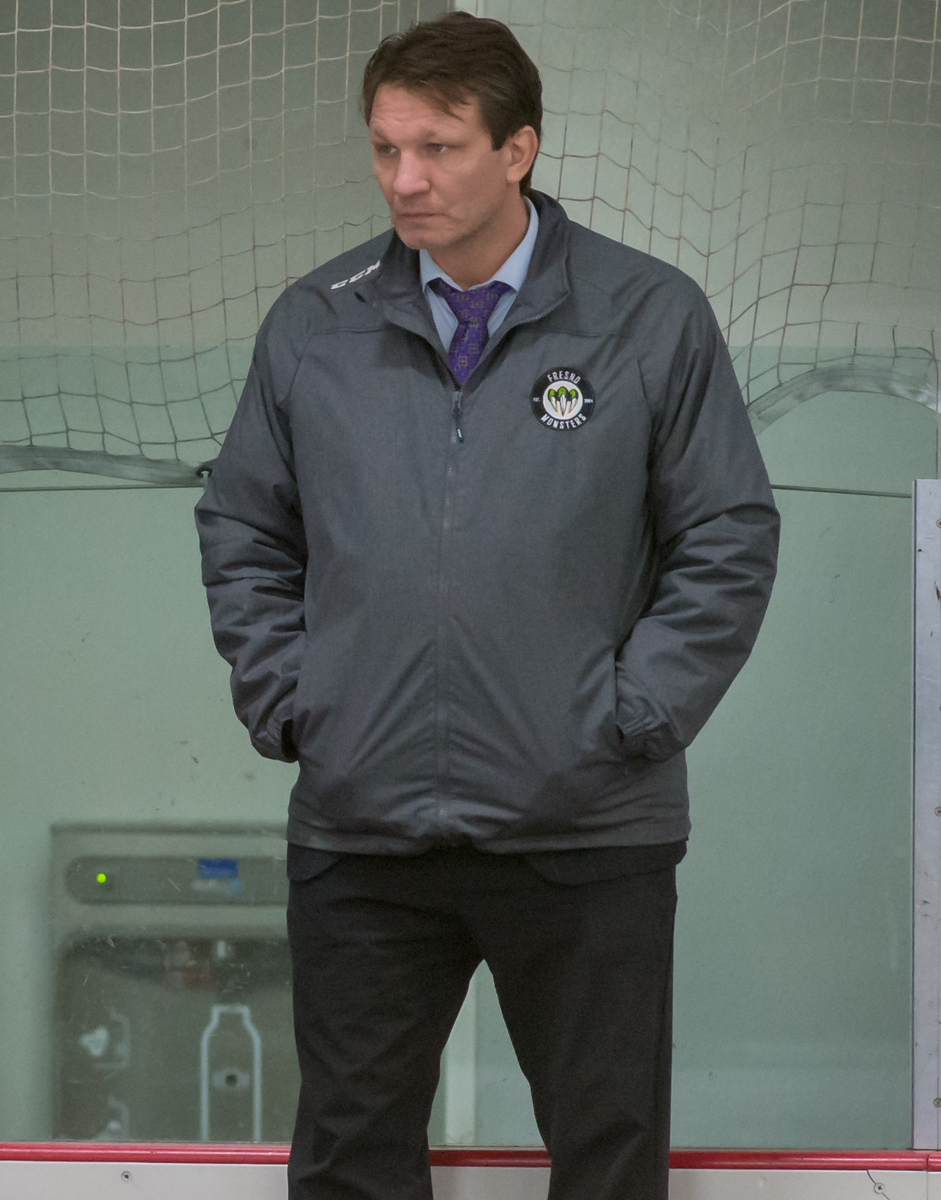 Brandon Bullett (left) and Kevin Kaminski serving as coaches of the Fresno Monsters in 2018